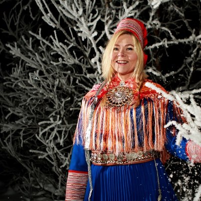 Norwegian / Sami author Sollaug Sárgon (b 1965) of Kautokeino